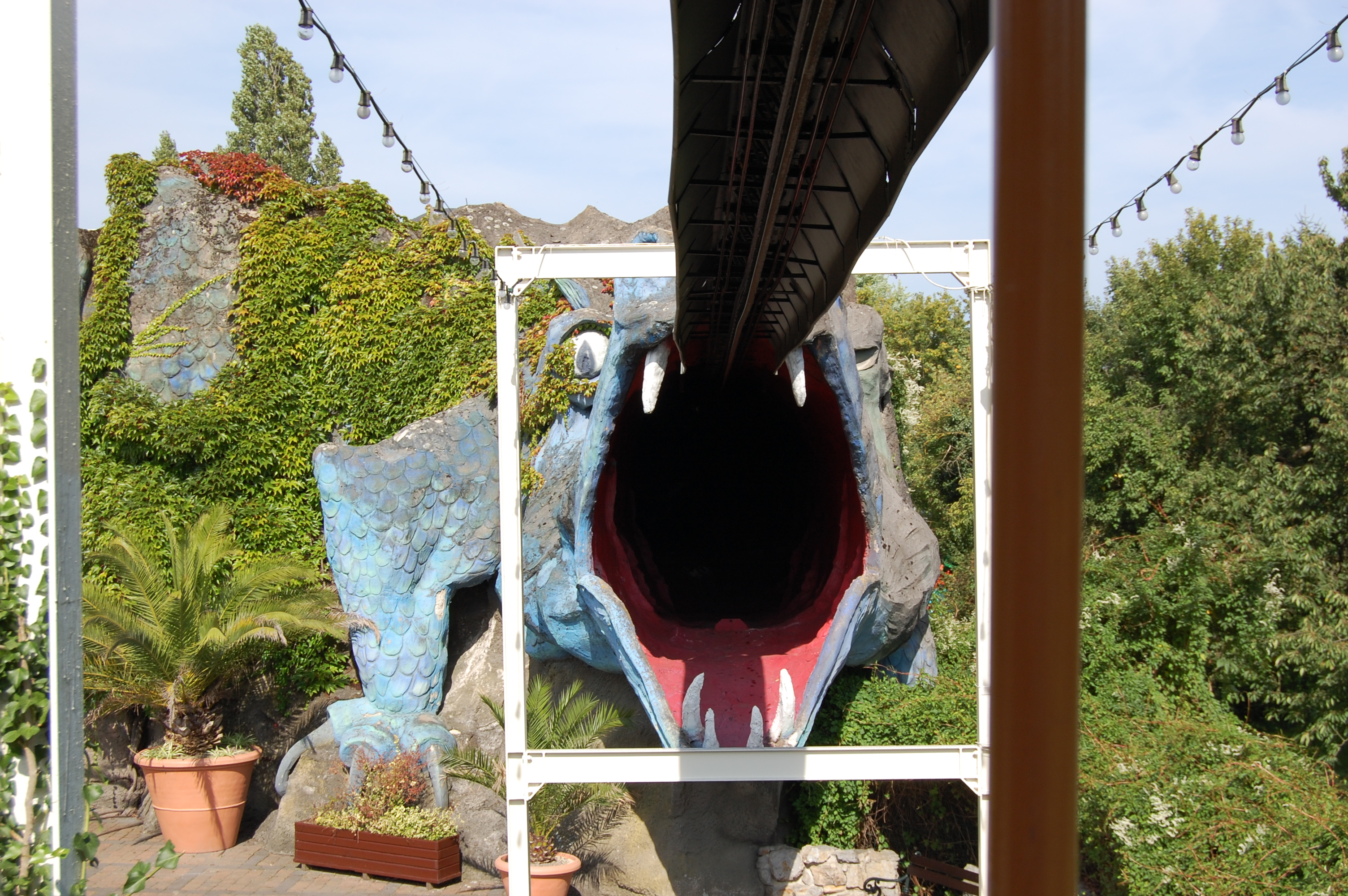 attraction in Phantasialand, Bühl (Germany) attraction in Phantasialand, Bühl (Germany)